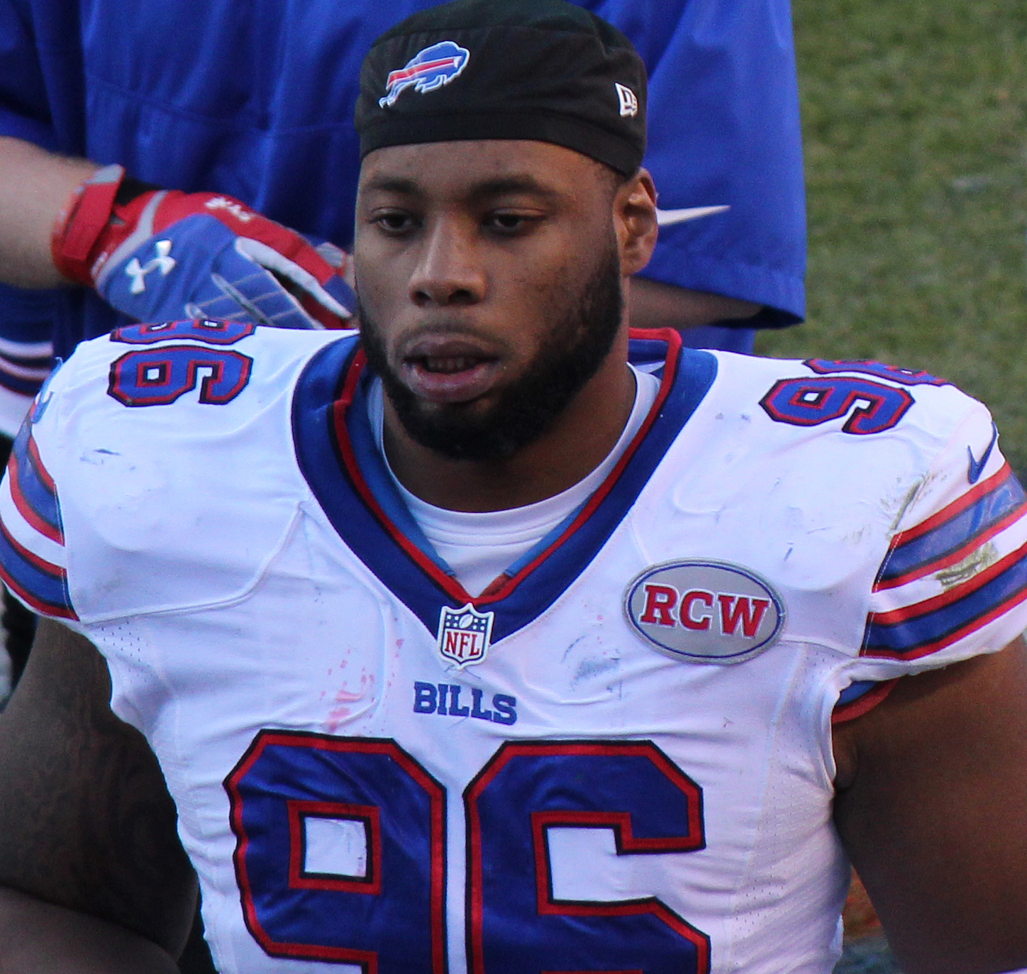 Stefan Charles, a player on the National Football League.